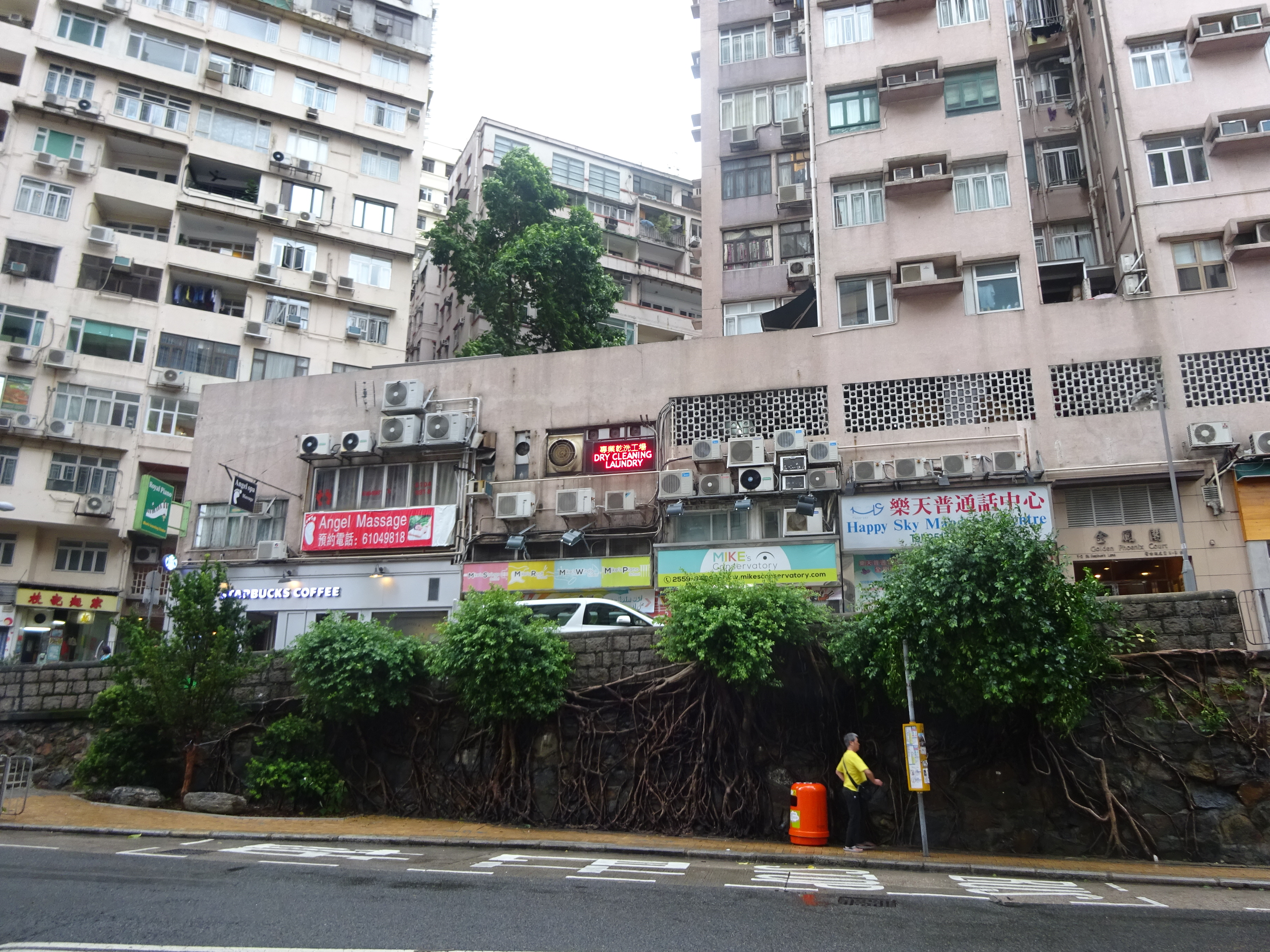 HK Mid-Levels 般咸道 Bonham Road trees in August 2016